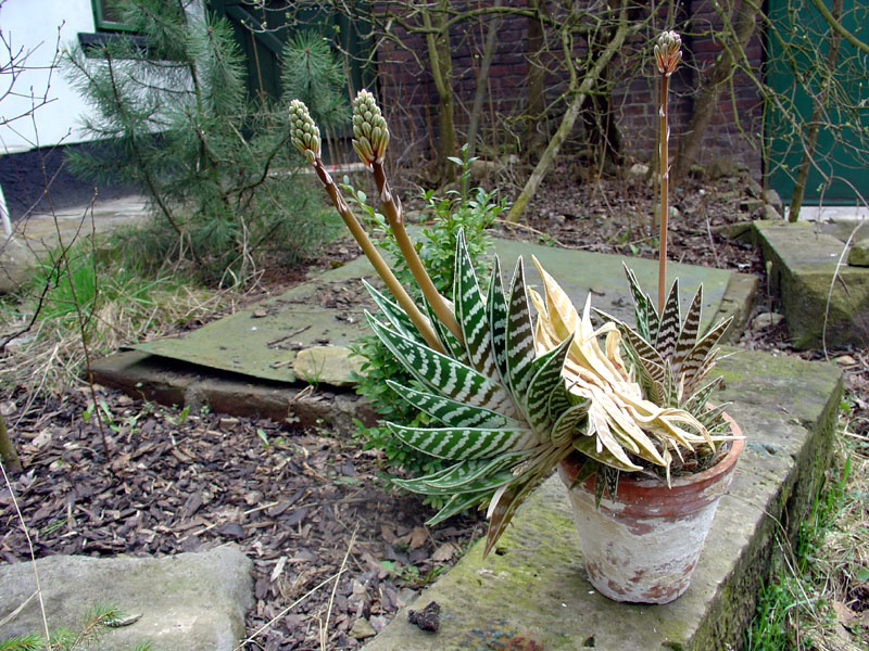 Flowering Gonialoe variegata